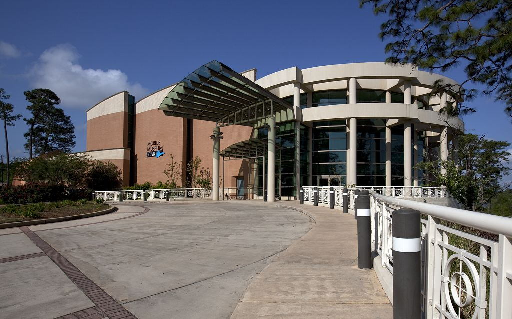 Recently expanded in 2002, the Mobile Museum of Art in beautiful Langan Park, Mobile, Alabama